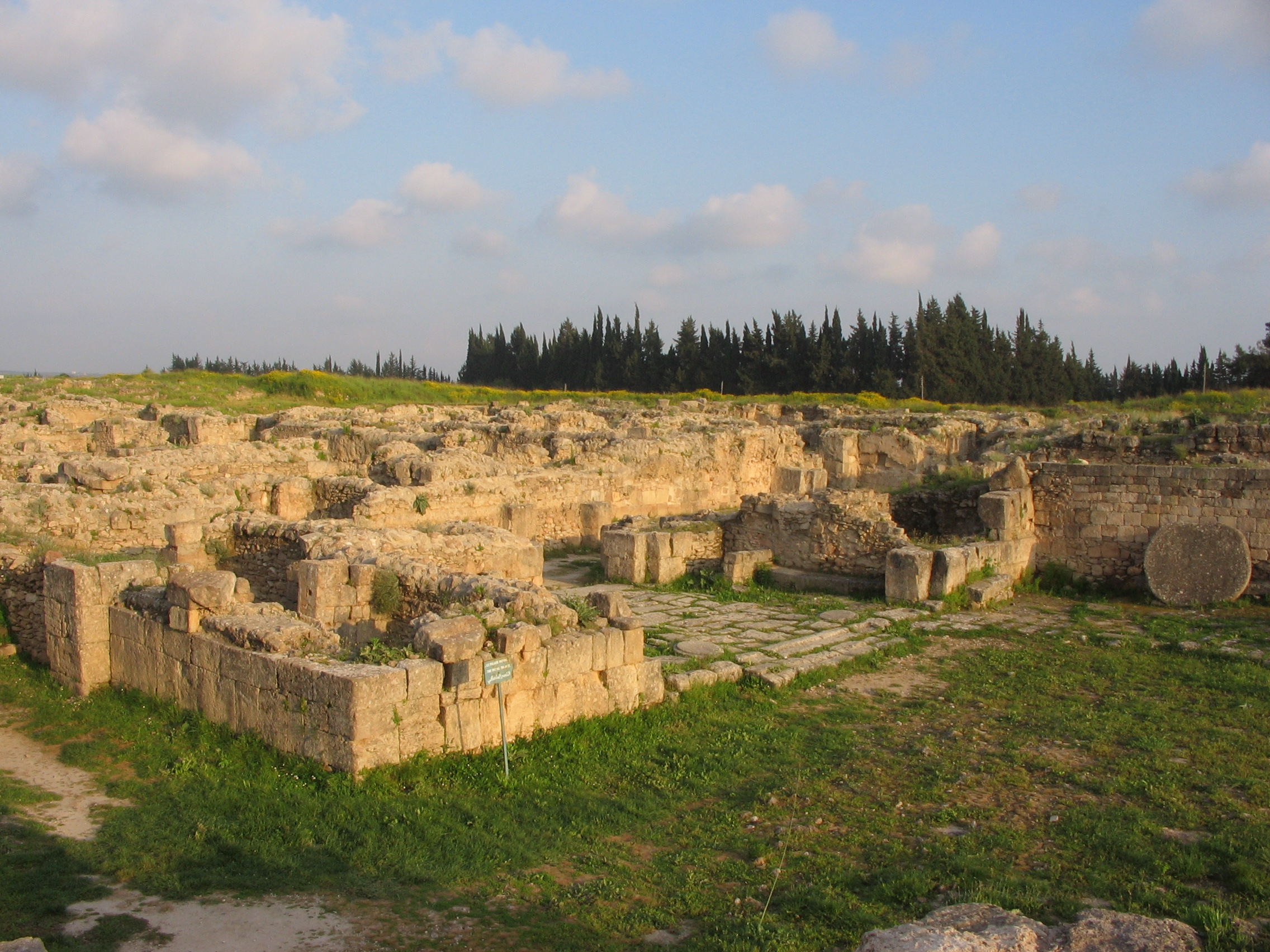 Royal palace, Ugarit in 2006